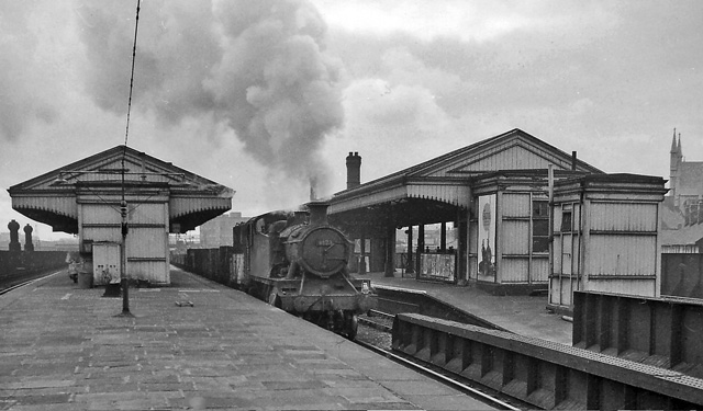 Bordesley Station, with train. View SE, towards Leamington and the South; ex-GWR main line London etc. - Banbury - Leamington - Birmingham (Snow Hill) etc. A very busy spot: a Class 51XX 2-6-2T runs through on a Down local Goods train.